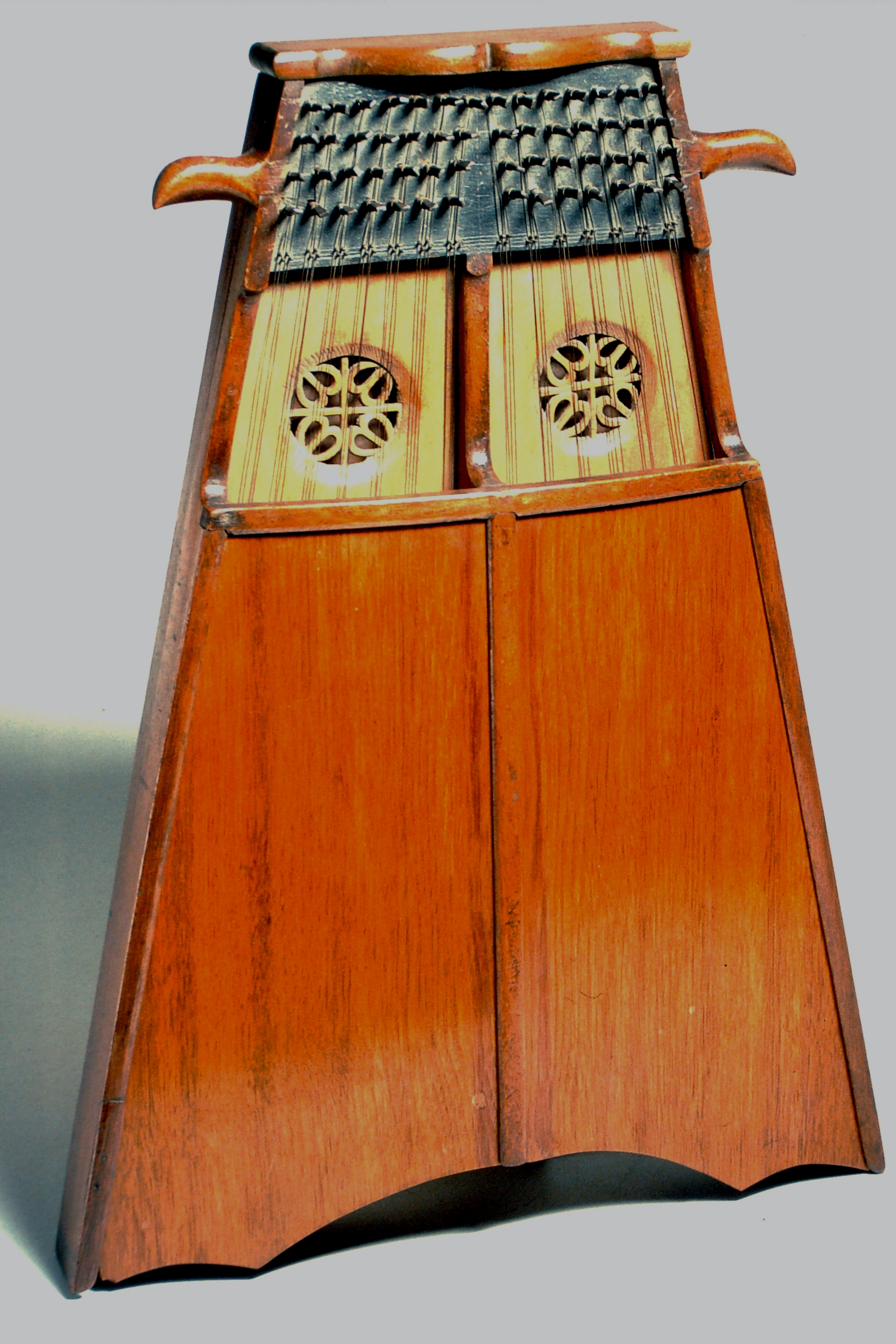 British; Bell Harp; Chordophone-Zither-plucked